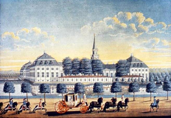 Hirschholm Slot in Hørsholm, Denmark